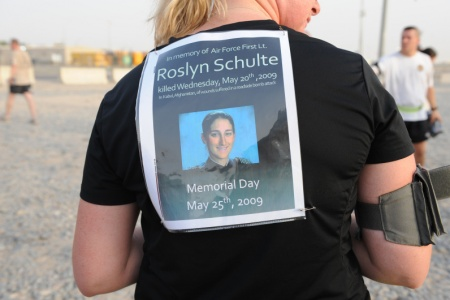 Memorial Day Activities [Image 3 of 8], by PO2 Jorge Saucedo. U.S. Navy Petty Officer 1st Class Kelli Roesch of Portland, Ore. wears a sign during the Memorial Day 5k run at a camp in the Middle East. The sign is in honor of fallen service member Air Force 1st. Lt. Roslyn Schulte, who died on May 20 in Afghanistan due to a roadside bomb. Petty Officer 1st Class Roesch trained with 1st. Lt. Schulte at the Ft. Lewis, Washington Army base prior to their transfer to separate locations the Middle East. "First Lt. Schulte was a great officer and even better person whose loss is rippling across many friends and fellow service members who knew and admired her," said Petty Officer 1st Class Roesch. Memorial Day events at the camp started off with a 5k run then a tug of war contest followed by a Memorial Day service and BBQ.